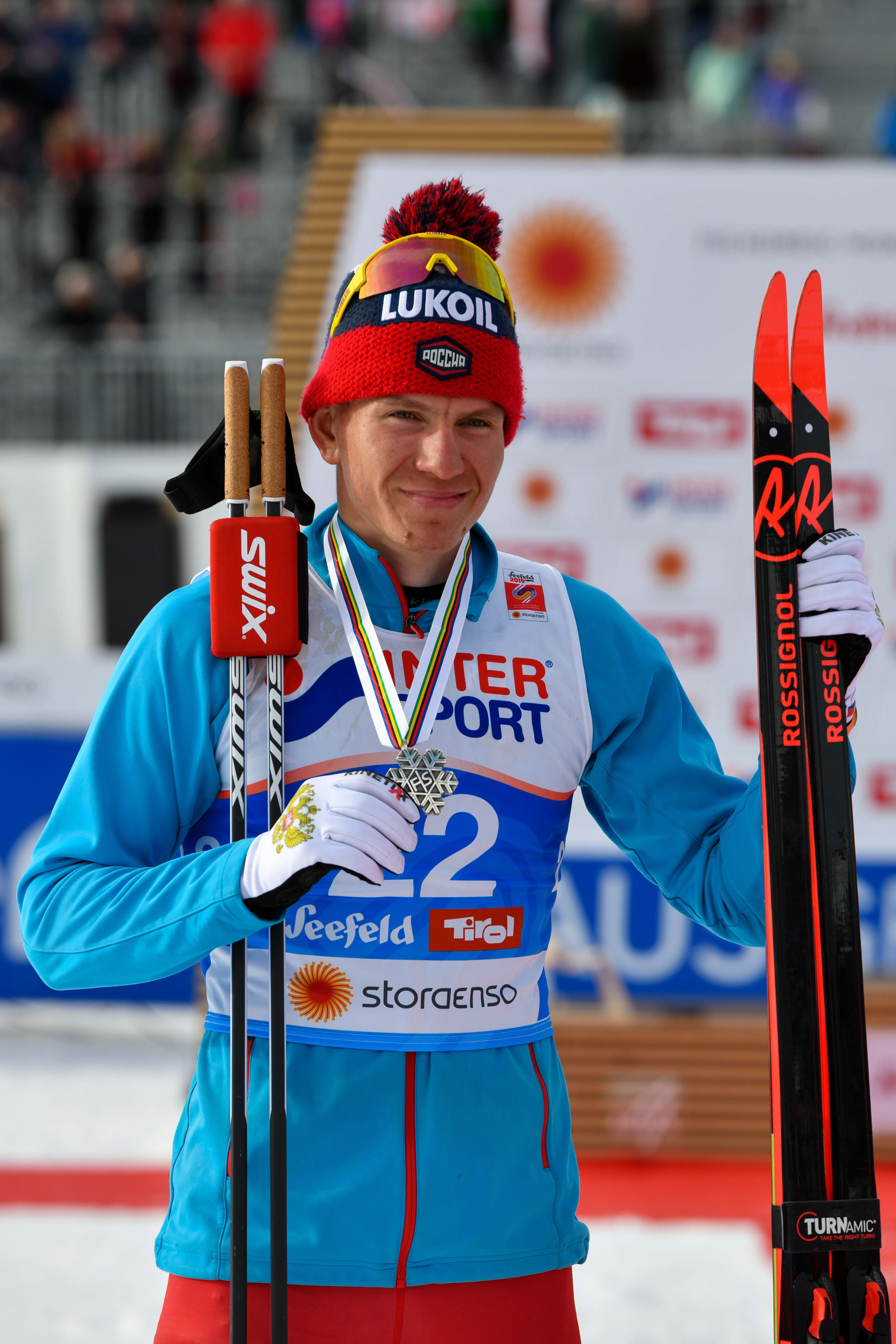 FIS Nordic World Ski Championships Seefeld 2019 - Men Cross Country 50km Mass Start Free. Picture shows Alexander Bolshunov (RUS).